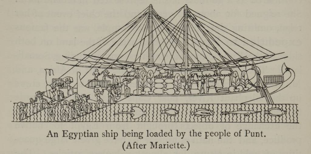 An Egyptian ship being loaded.